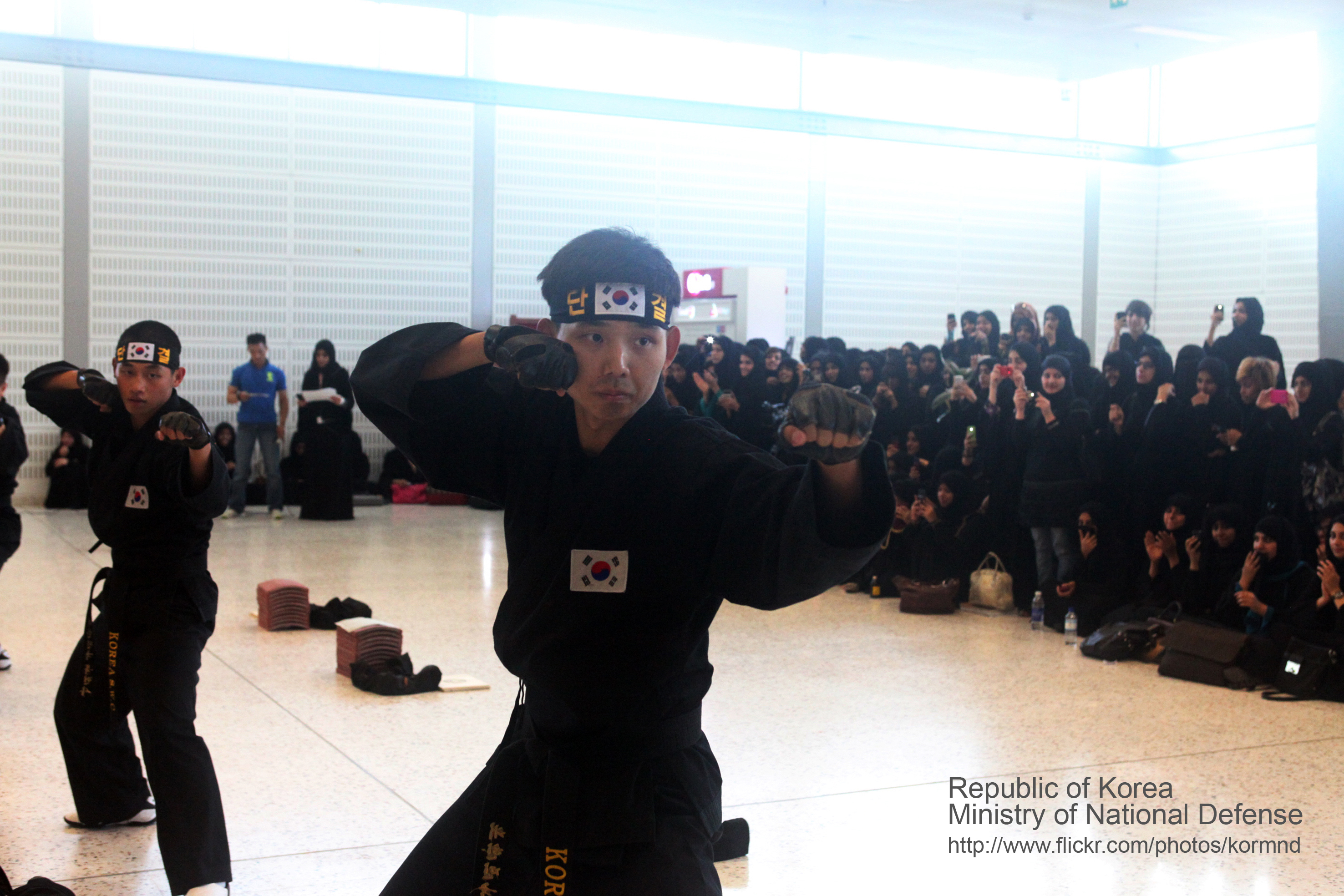 Republic of Korea The Akh Unit in UAE